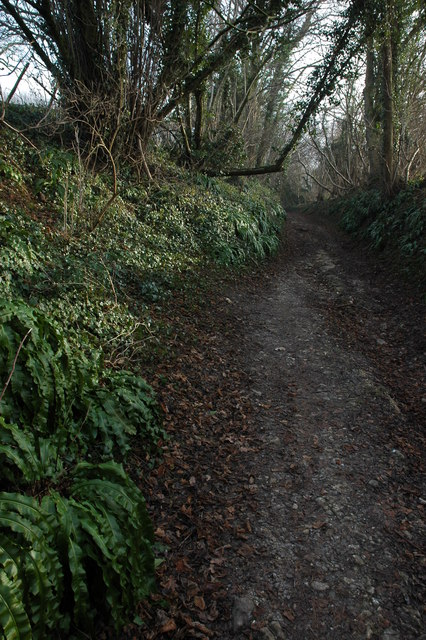 Right of way above Standish Right of way ascending the hill above the site of the former Standish Hospital.